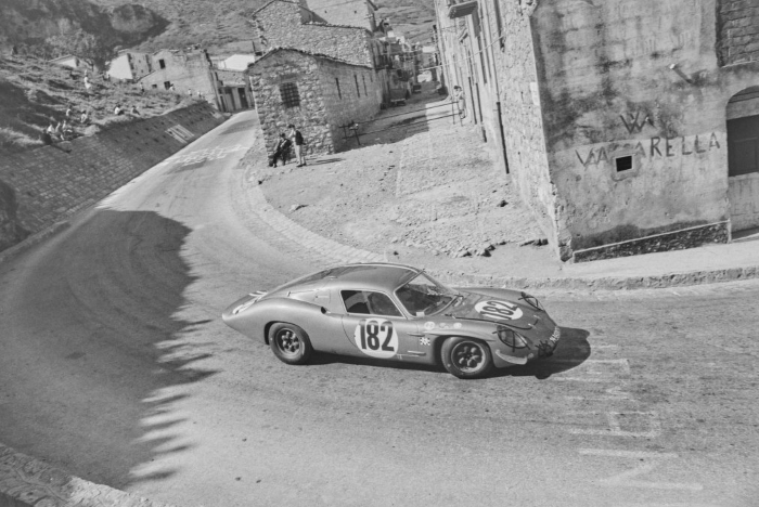 Mauro Bianchi and Jean Vinatier in Alpine A210 Renault (team: Société des Automobiles Alpine) at Targa Florio on 14 May 1967. Did not finish due to mechanical trouble.[1]